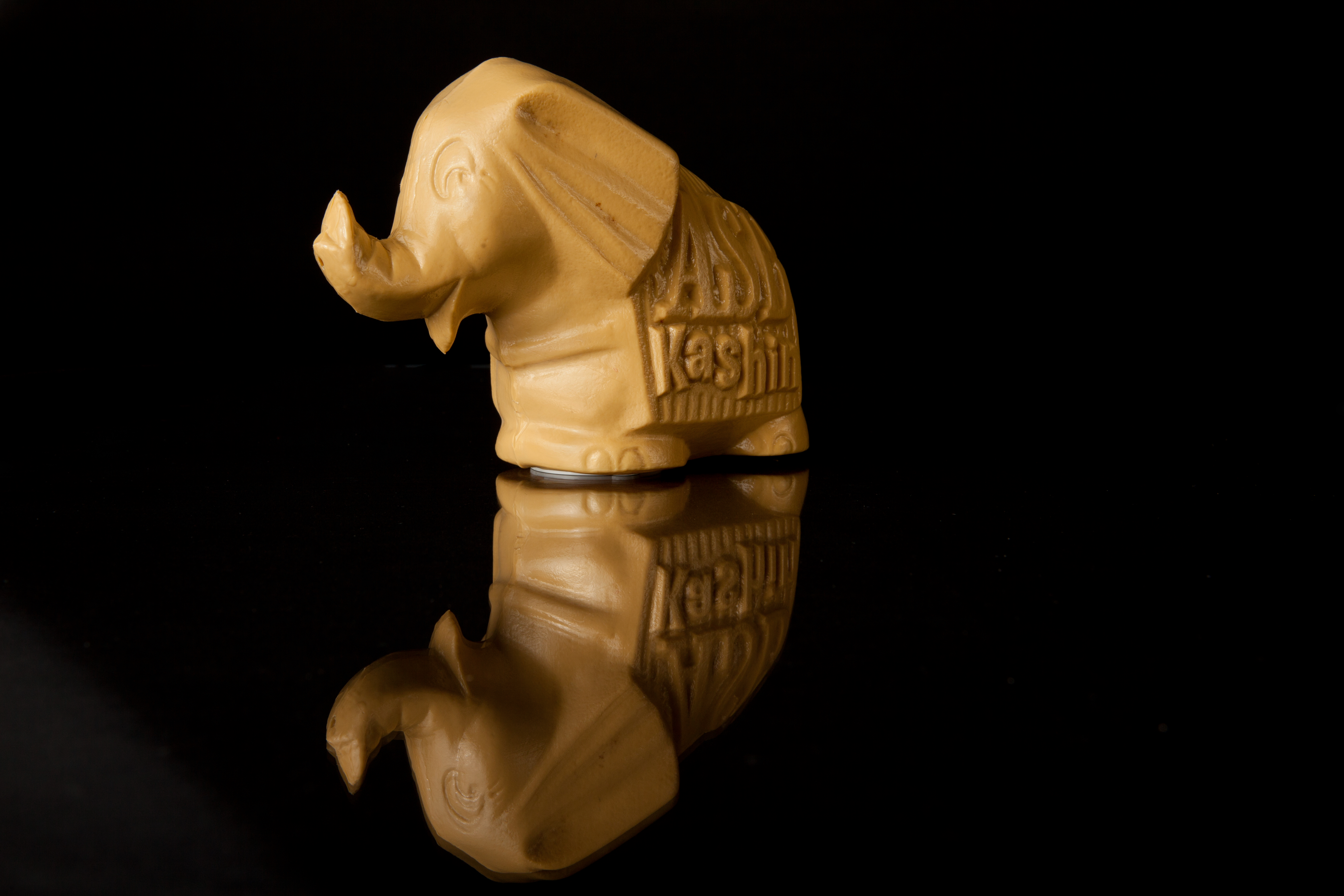 Kashin the Elephant was an Asian elephant who spent most of her life at Auckland Zoo, New Zealand. She arrived from Como Zoo in the Untied States in 1973 and remained at Auckland Zoo until her death on 24 August 2004. Kashin was put to sleep in after suffering from chronic arthritis and foot abscesses. Kashin was famously sponsored by ASB Bank, and featured regularly in television show The Zoo. Described by Auckland Zoo as the 'Queen Mum, the matriarch of the zoo family', Kashin was very much loved by all her met her, and her death caused great grief for many. Zoo chairman Graeme Mulholland, speaking after her death, said "Kashin touched the lives, not just of the zoo family, but thousands of New Zealanders and international visitors who came to know and love her... she will be greatly missed by all." Talk to a New Zealander about Kashin the Elephant, and invariably someone will remember putting their coins in their Kashin the Elephant moneybox. Launched in 1964, the plastic elephant shaped moneyboxes were an incentive from ASB bank to help kiwi kids save. Archives New Zealand holds this Kashin moneybox and others as part of a collection of documents and ephemera from Robertson Collection of Agyrothecology, which is a part of the Government Life Insurance Archives. More information about the collection here: Further information about the Government Life Insurance Archives can be found here